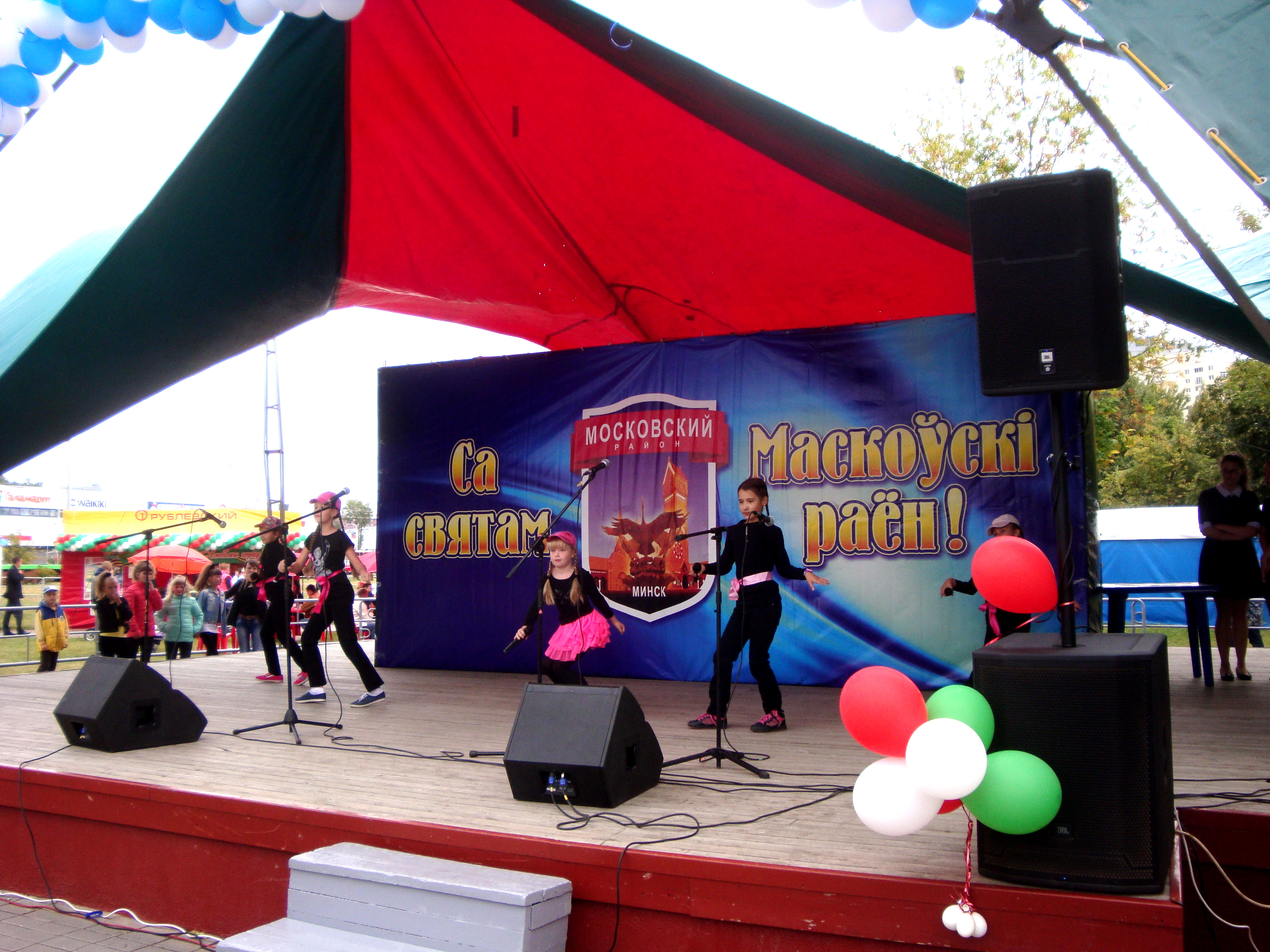 children's singing during the feast day of the city - in Michail Paulau Park in Minsk city (Belarus), 12 September 2015 AD